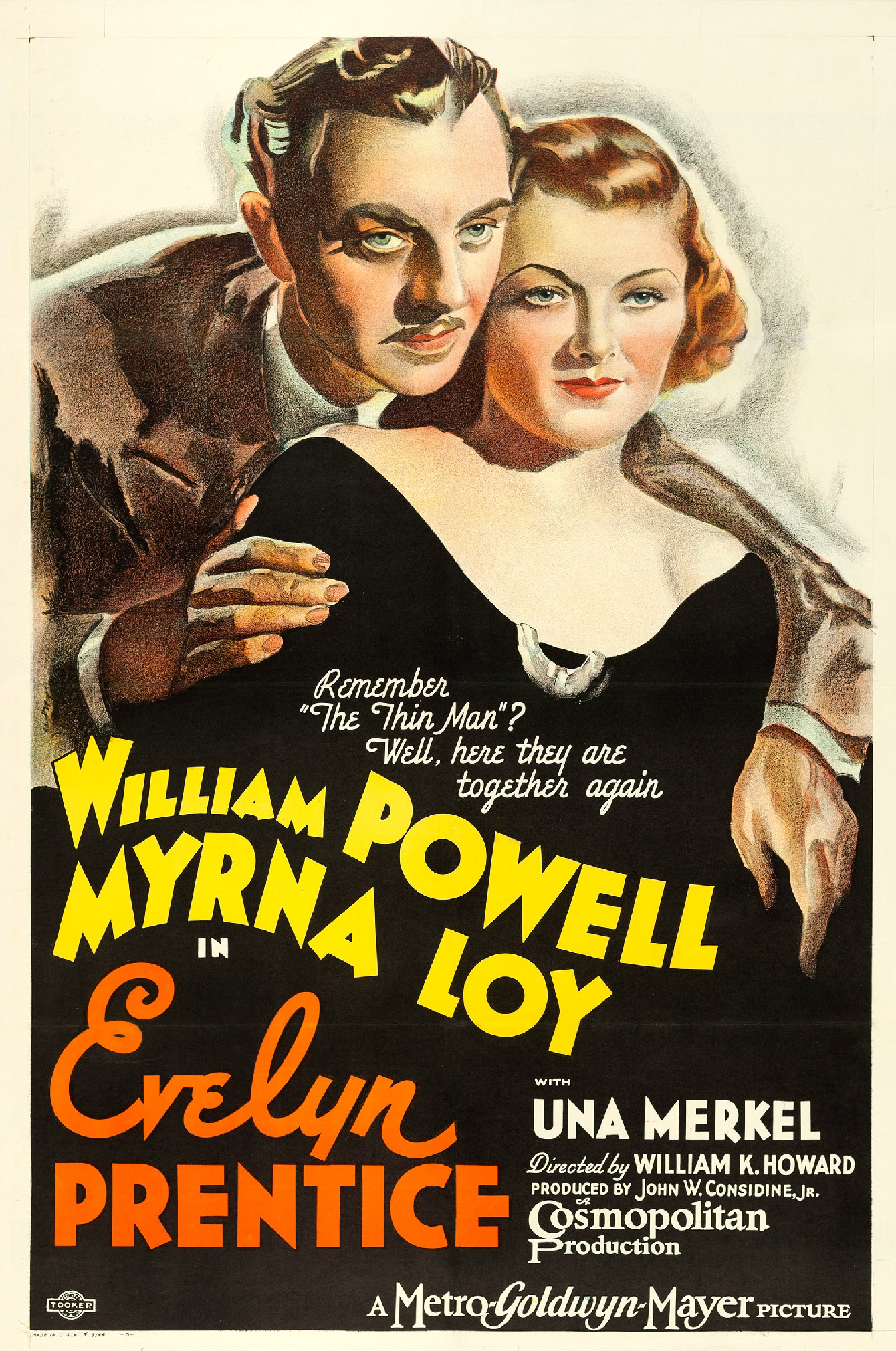 Poster for the 1934 film Evelyn Prentice. There are no copyright marks. At bottom left is Made in USA #5144-D (poster version D) and the Tooker Litho Co. logo-they printed the poster.